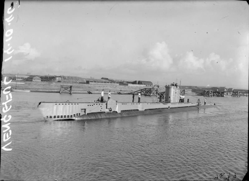 HMSM Vengeful Underway.